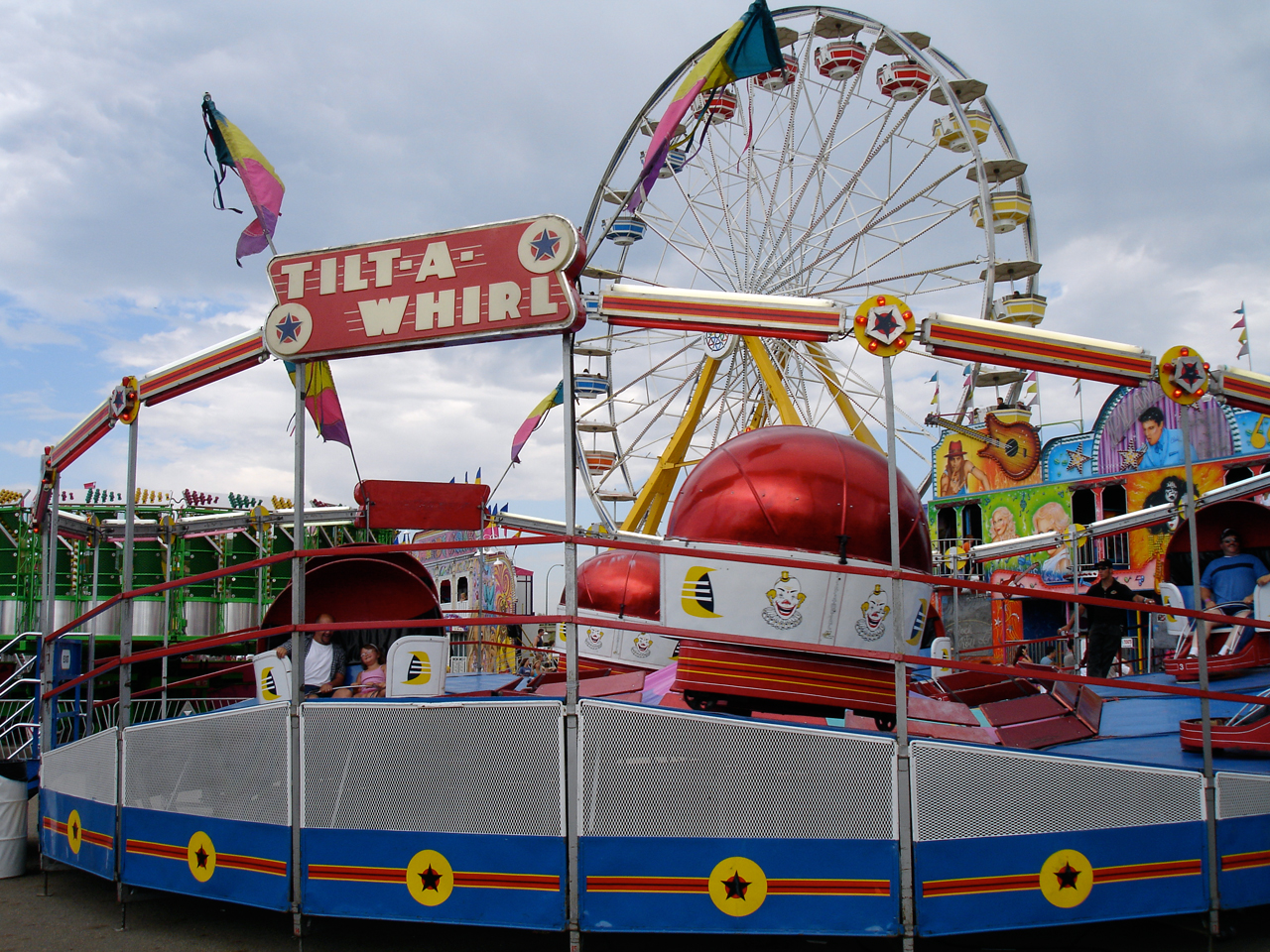 An oldie but a goodie, the Tilt-A-Whirl has been around in various forms since 1927.